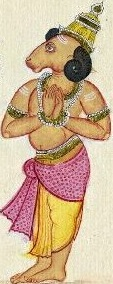 A depiction of the Hindu god named Daksha, who is the father-in-law of Shiva